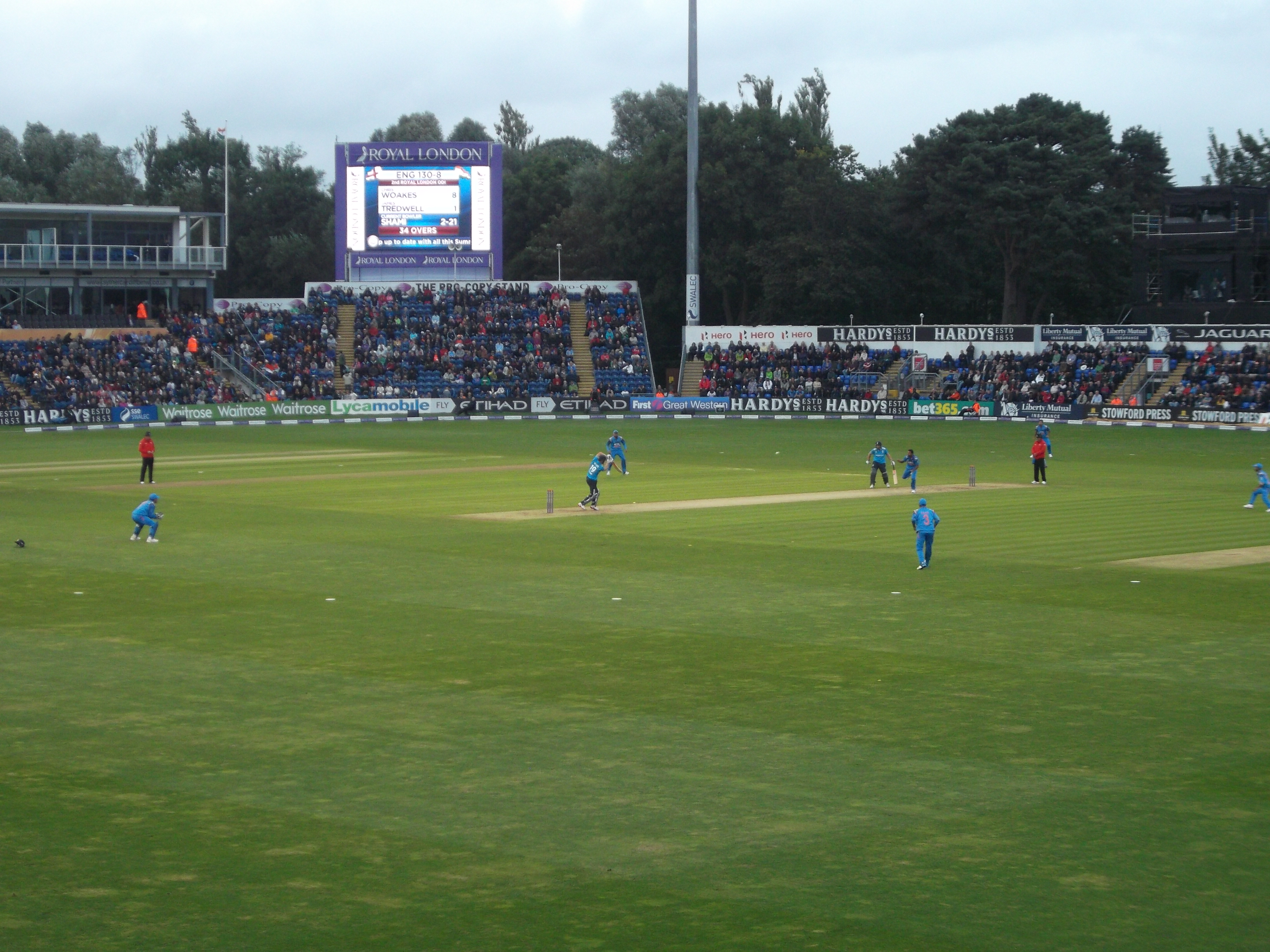 Chris Woakes batting for England in the ODI match against India at Cardiff on the 27th of August 2014